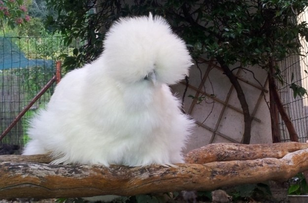 Tipiche galline allevate da Jean, dette Upupe.